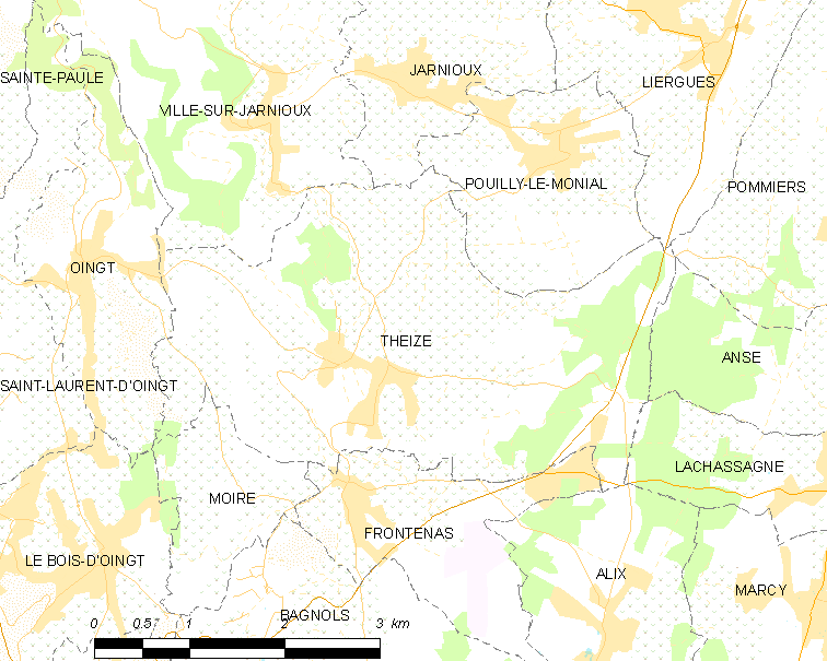 Map of French municipality